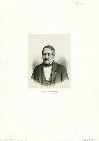 Christian Schøller (1791-1858), Danish landowner, army officer, and politician